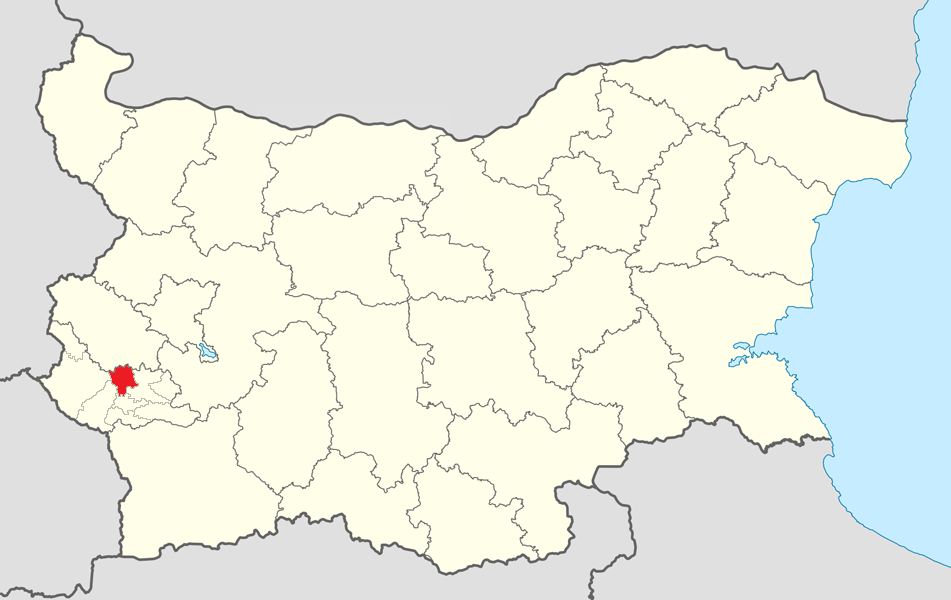 Location map of Bobov dol Municipality within Bulgaria and Kyustendil province